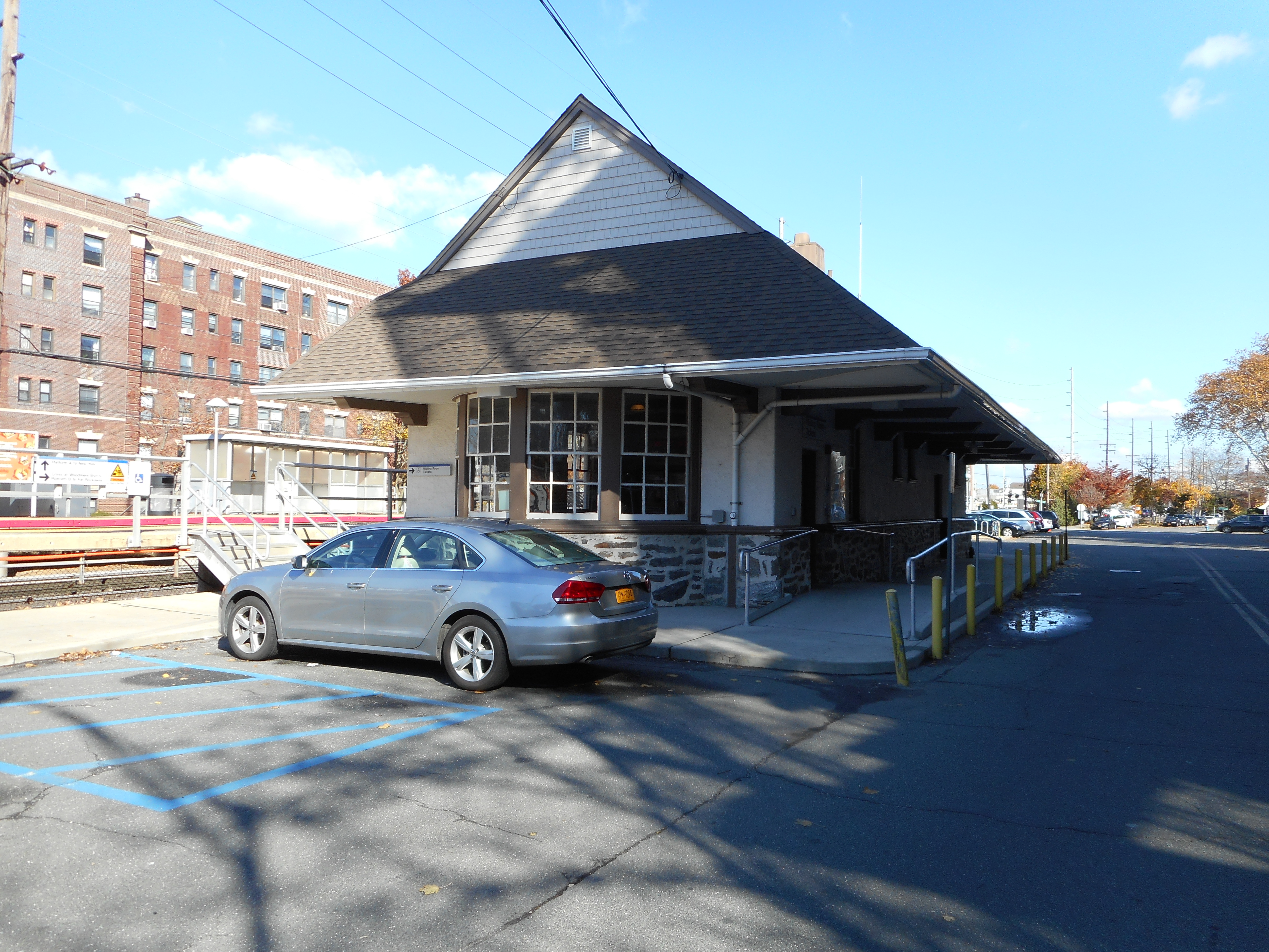 An attempt to replace the poor dusk shot of Woodmere (LIRR station) from December 29, 2009. This shot was taken on November 14, 2014.